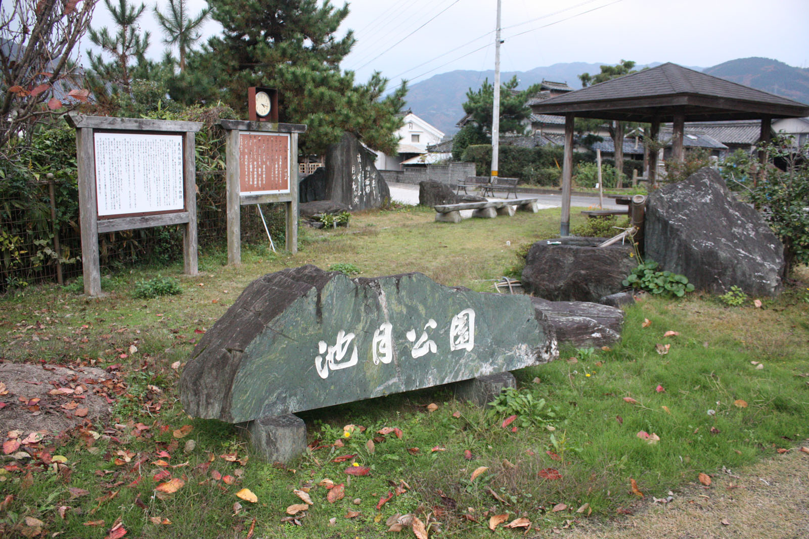 Front of Ikezuki Park in Mima Town, Mima City, Tokushima Prefecture, Japan